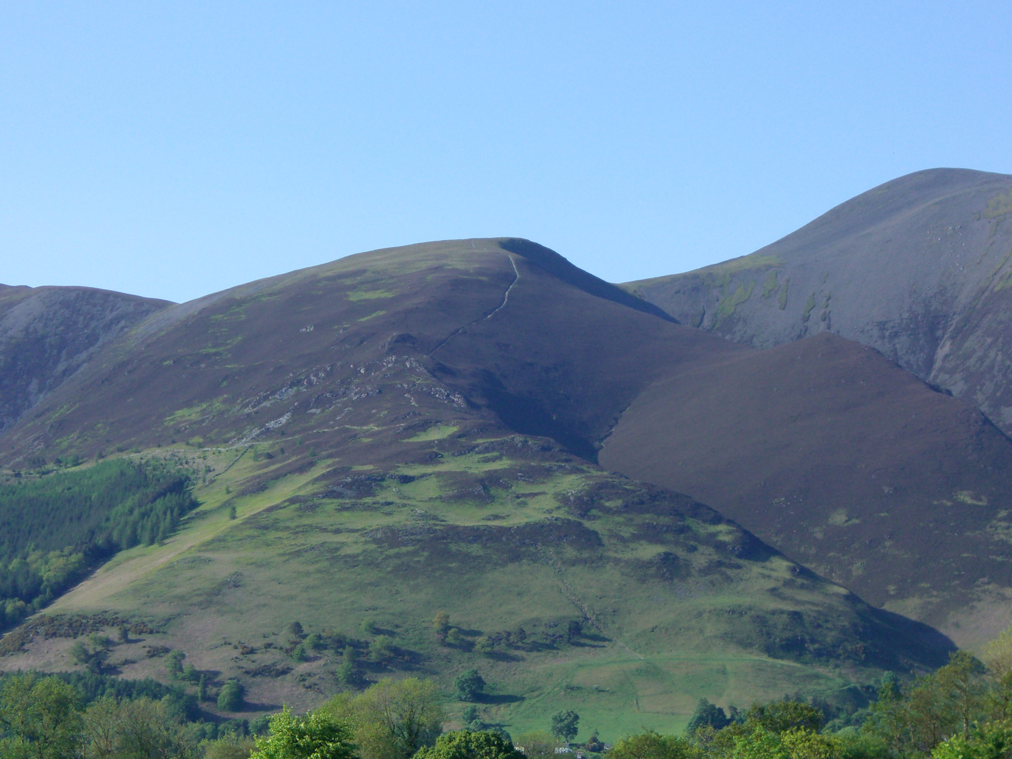 The fell of Carl Side seen from the village of Portinscale in the English Lake District